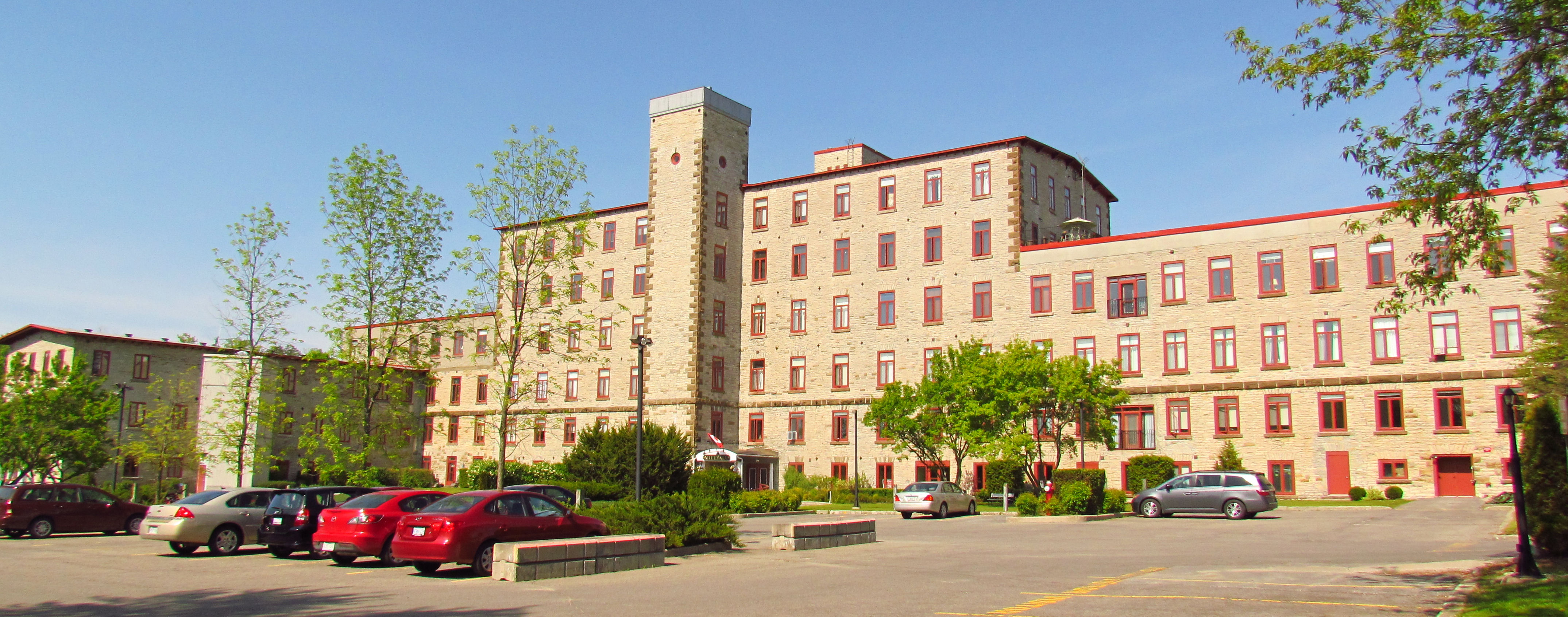 Rosamond Woolen Mill, Almonte, Ontario, Canada